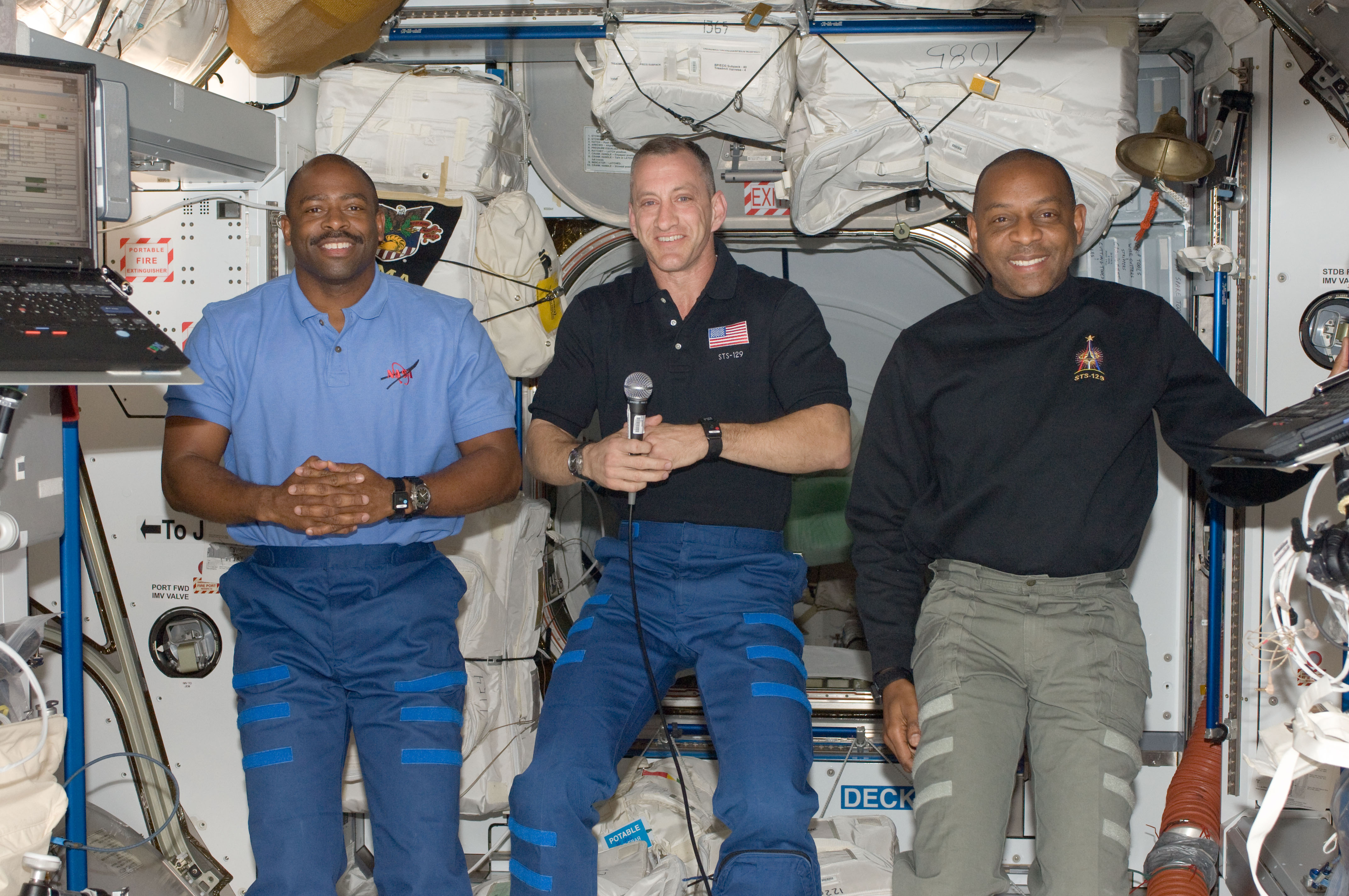 NASA astronauts Charles O. Hobaugh (center), STS-129 commander; along with Leland Melvin (left) and Robert L. Satcher Jr., both mission specialists, are pictured in the Harmony node of the International Space Station while space shuttle Atlantis remains docked with the station.